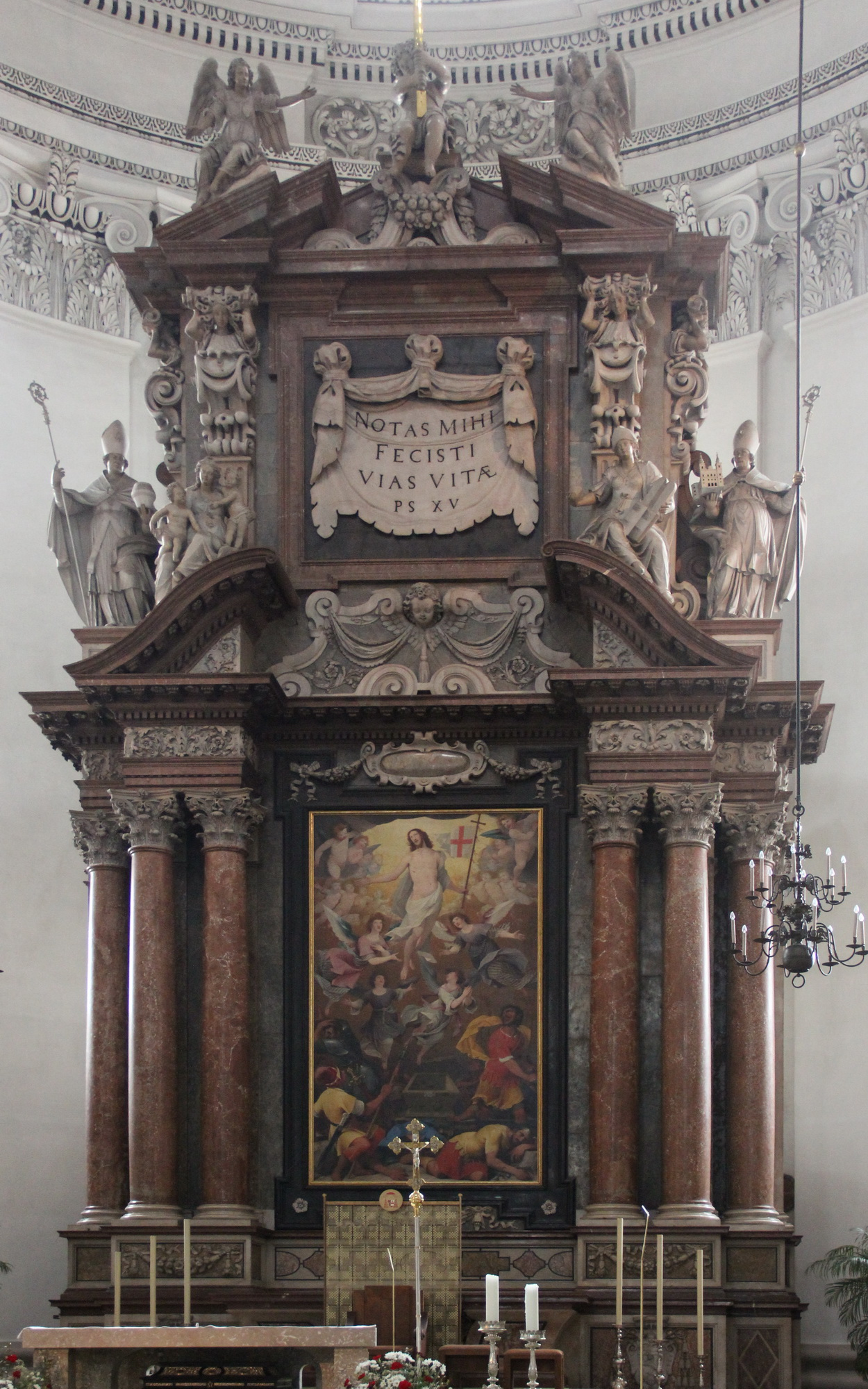 Salzburg Cathedral Native nameSalzburger DomLocationSalzburg, AustriaCoordinates47° 47′ 52.34″ N, 13° 02′ 47.9″ E Established8th century date QS:P,+750-00-00T00:00:00Z/7Web page control : Q258908 GND: 4224677-5 institution QS:P195,Q258908 Hochaltar, mit Altarblatt von Rudolf Josef Müller (1816-1904)